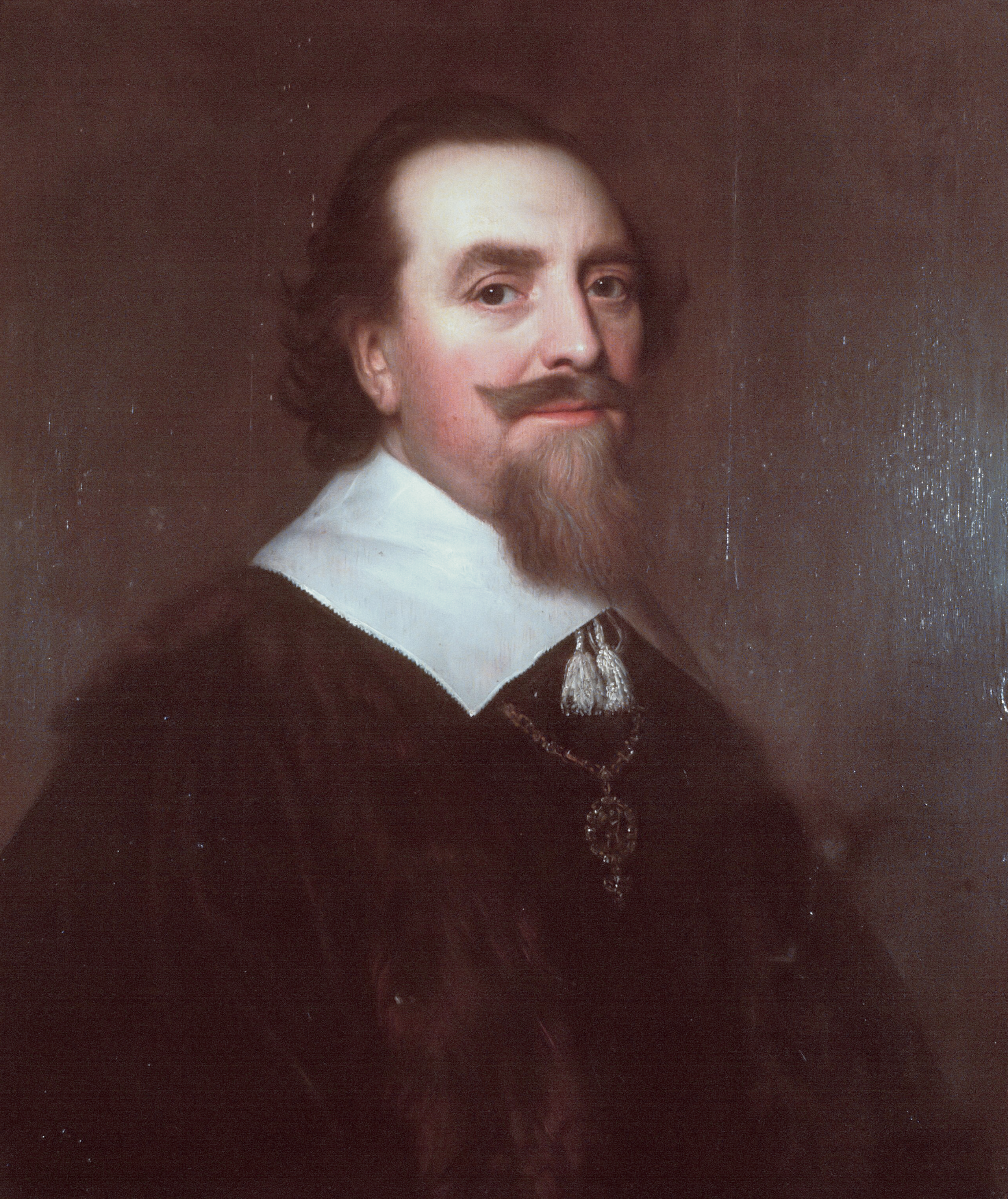 Adriaan Pauw (1585-1653) oil on panel 70 x 60 cm signed b.r. 1651